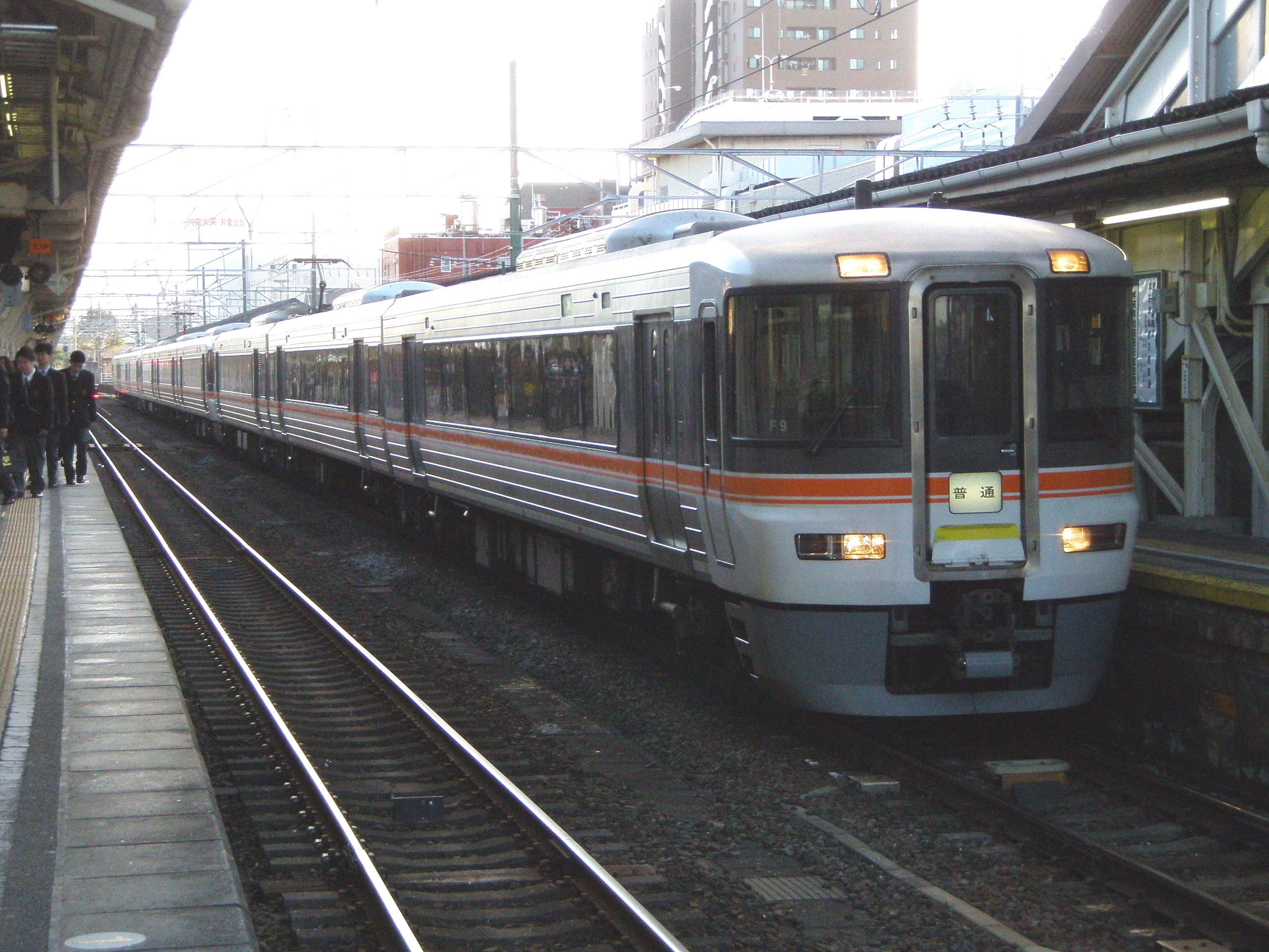 Central Japan Railway 373series 0types Tokaido Local Service Train (Photograph in Numazu Station)